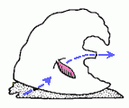 Small shelly fossil Yochelcionella interpreted as snail-like mollusc, showing water flow. NB the water flow illustrated here is the opposite of that stated in no source is available for the illustrated interpretation.